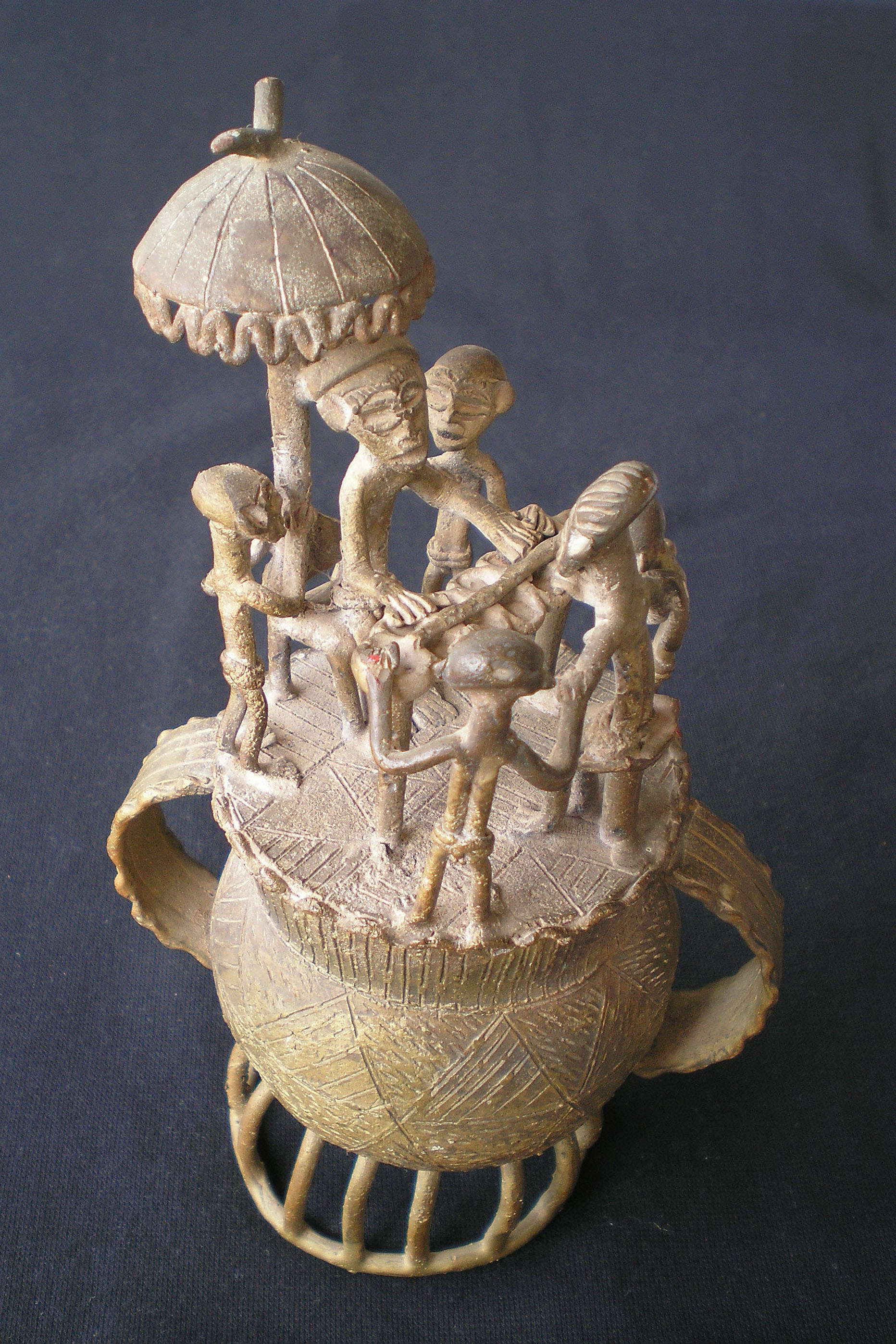 This brass ornament was produced by the ancient lost-wax technique by an Ashanti craftsman in Ghana. Originally these kinds of containers were used to keep precious gold dust in them. The lid is decorated with a village scene, where the chief sitting under his umbrella is playing owari (an african bead game). Height: 17 cm